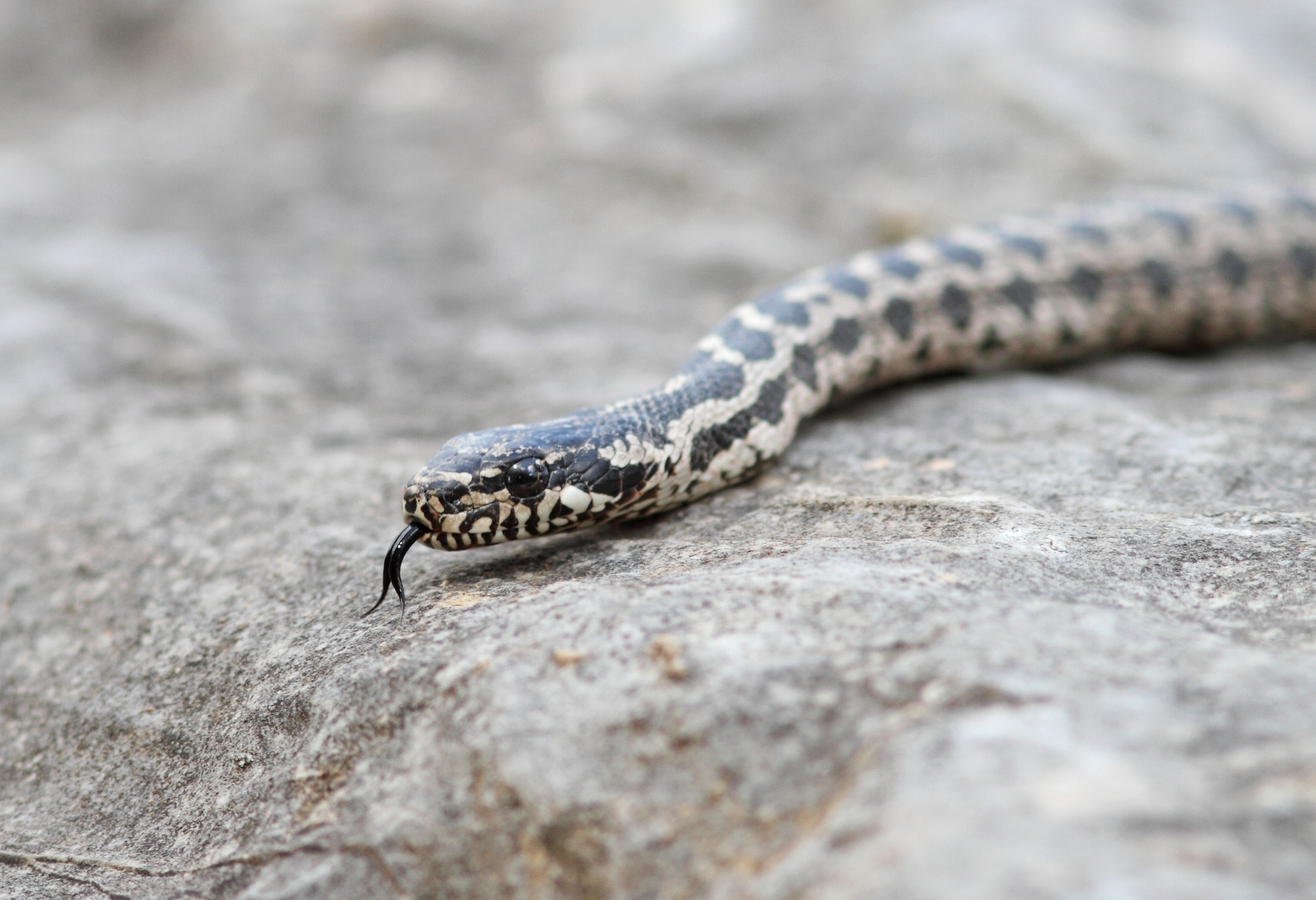 Subadult four-lined snake (Elaphe quatuorlineata) in Tuscany.